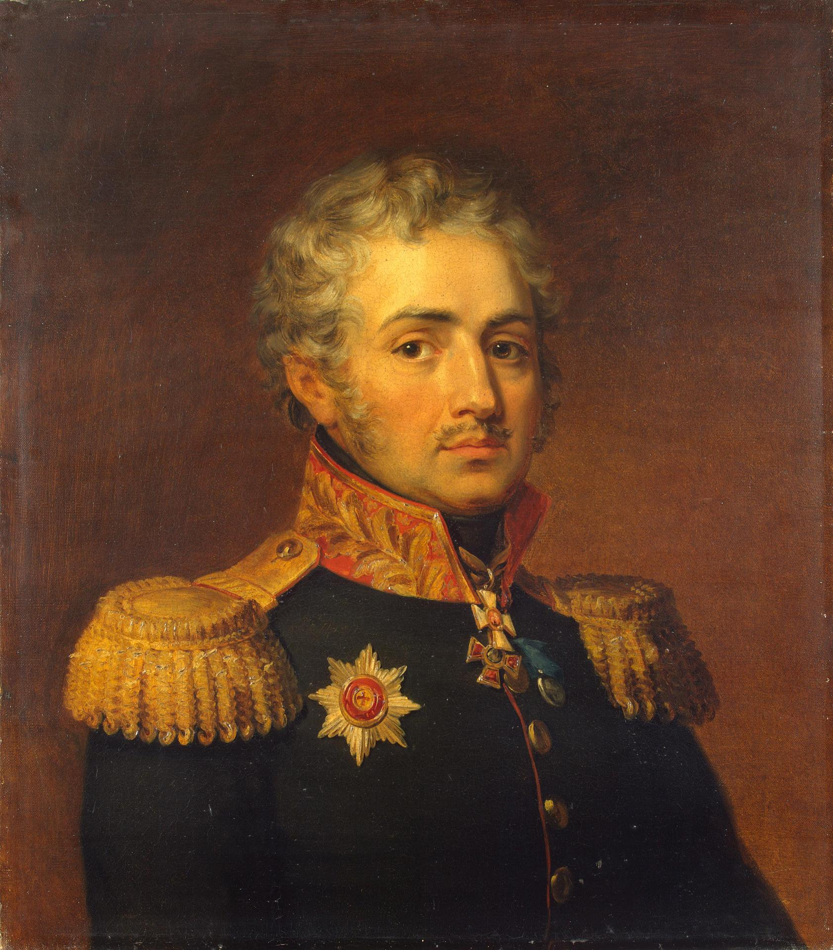 Shevich, Ivan Yegorovich.